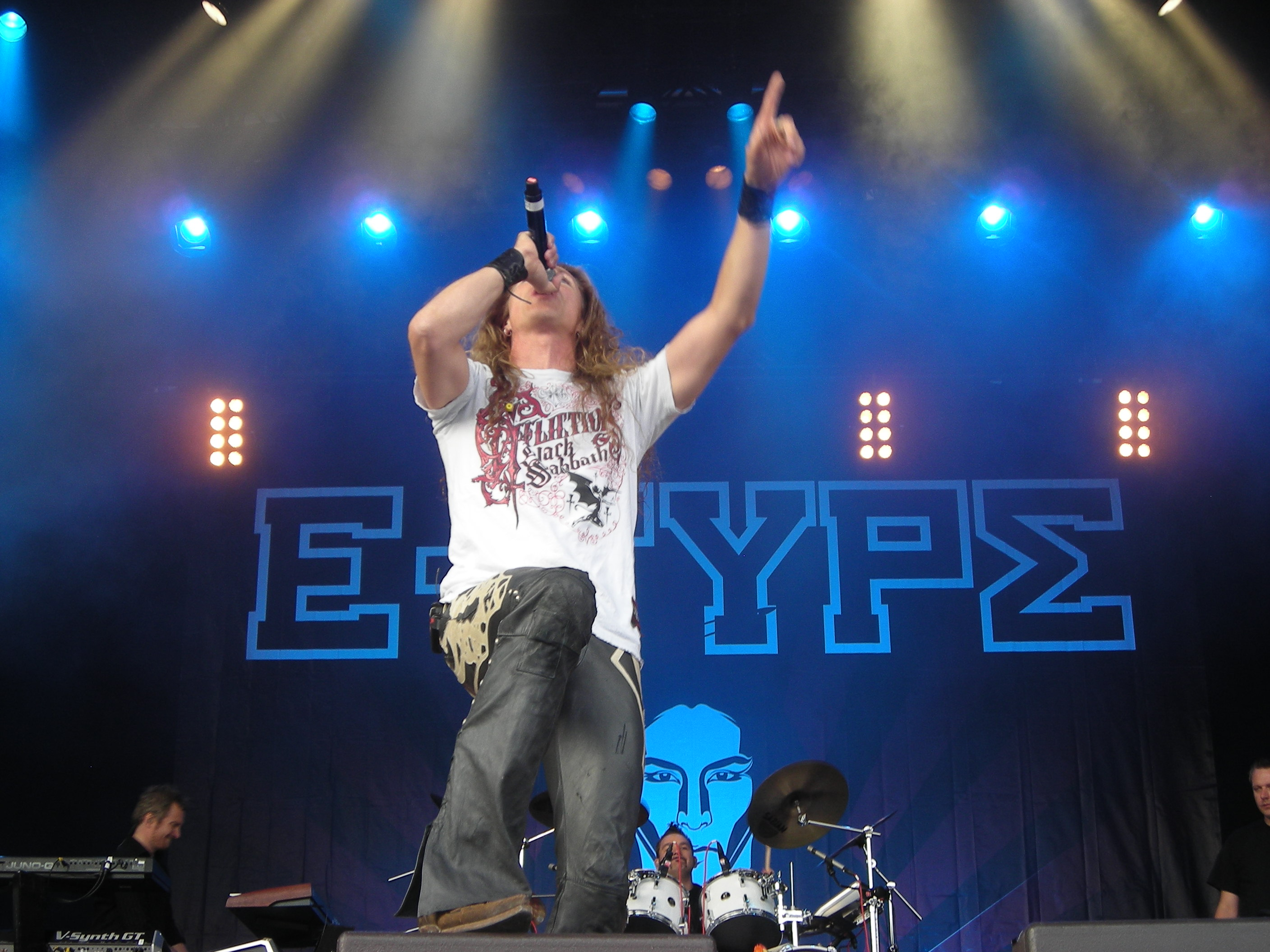 E-Type on stage in a consert at Liseberg in Göteborg. Photo: Johan Hammerby